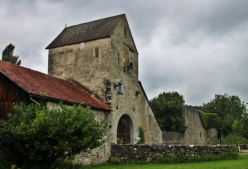 This image shows Gießen castle (Burg Gießen) in Gießen near Kressbronn am Bodensee.